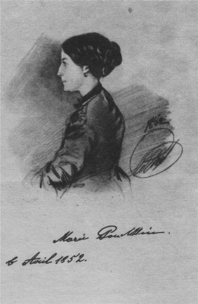 Maria Aleksandrovna Pushkina (1832-1919) - Alexander Sergeevich Pushkin and Natalia Nikolaevna Goncharova`s daughter